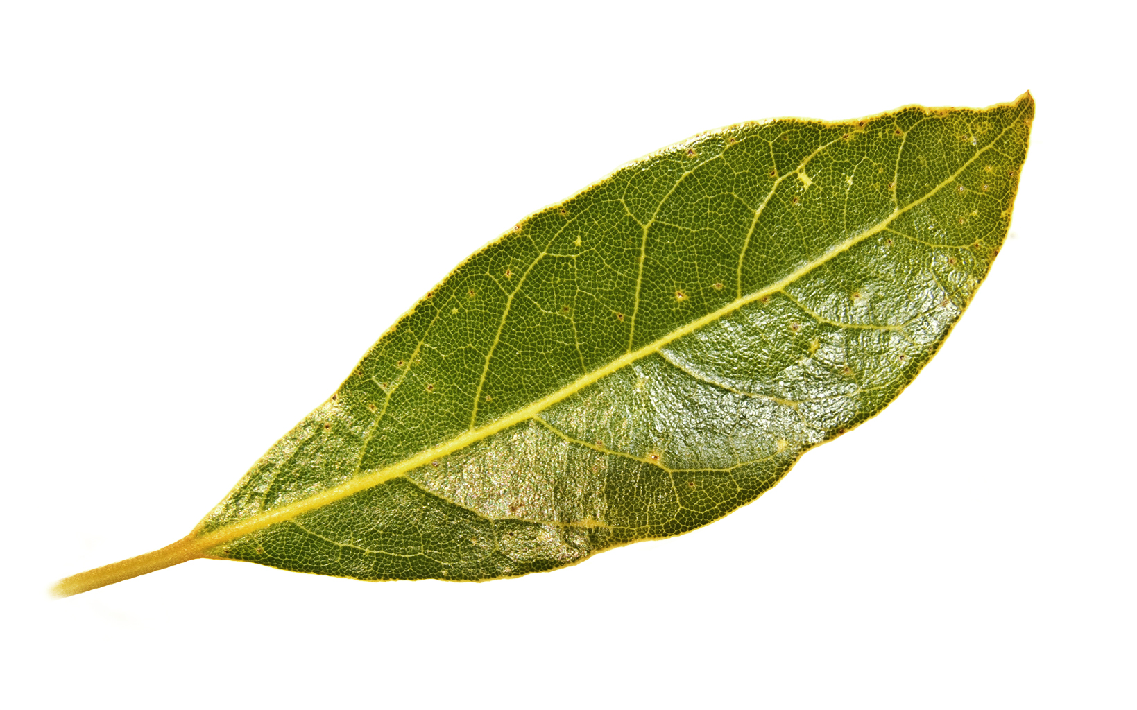 A leaf of the Bay Laurel Laurus nobilis.